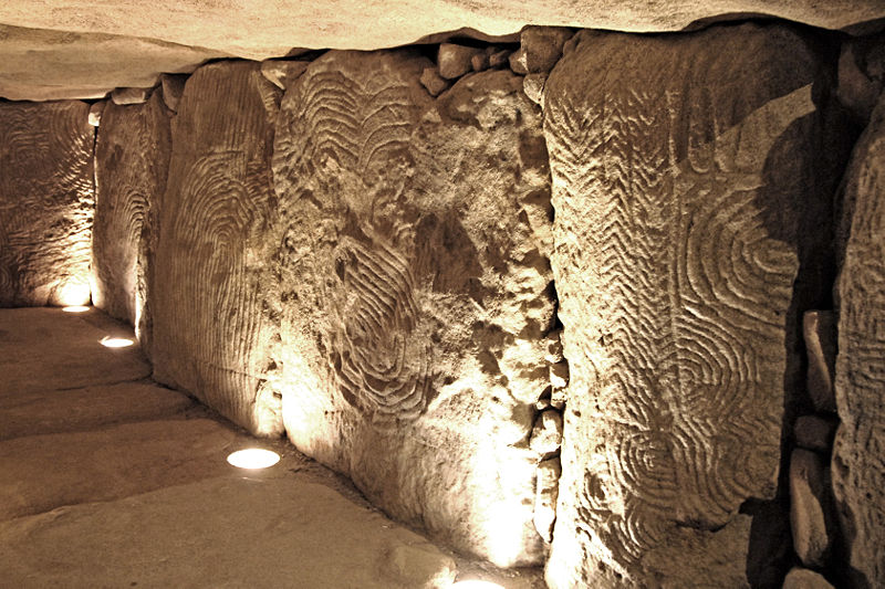 from German wiki under GNU license there: Bild:NOR1524.JPG submitted by Joachim Jahnke